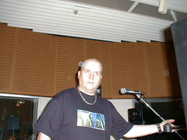 Andreas Tomalla aka Talla 2XLC.